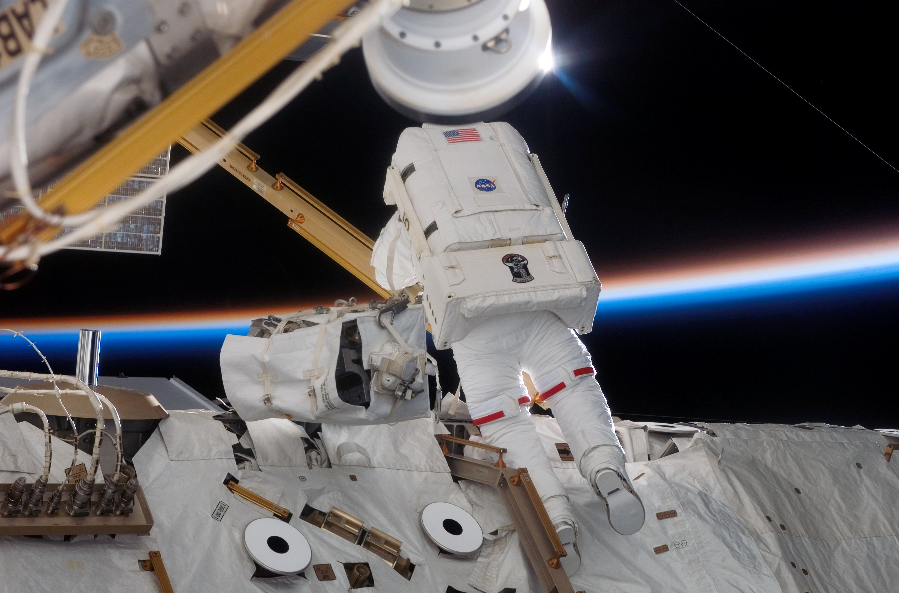 Astronaut Jim Reilly participate in the mission's first planned session of extravehicular activity, as construction resumes on the International Space Station. Earth's horizon and the blackness of space provided the backdrop for the scene